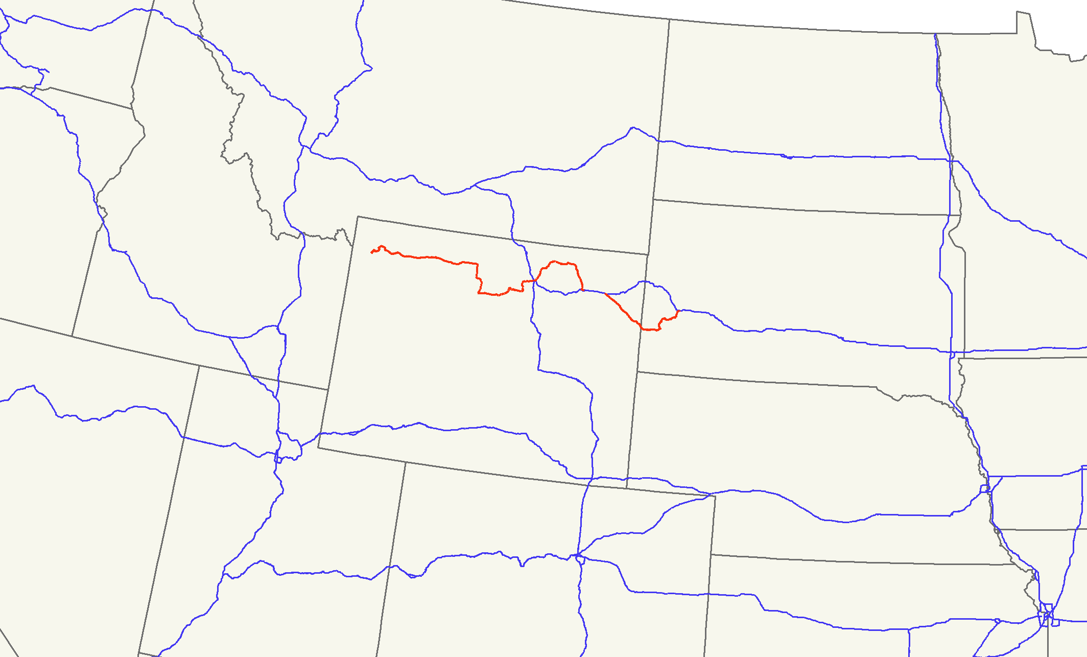 Map of U.S. Route 16